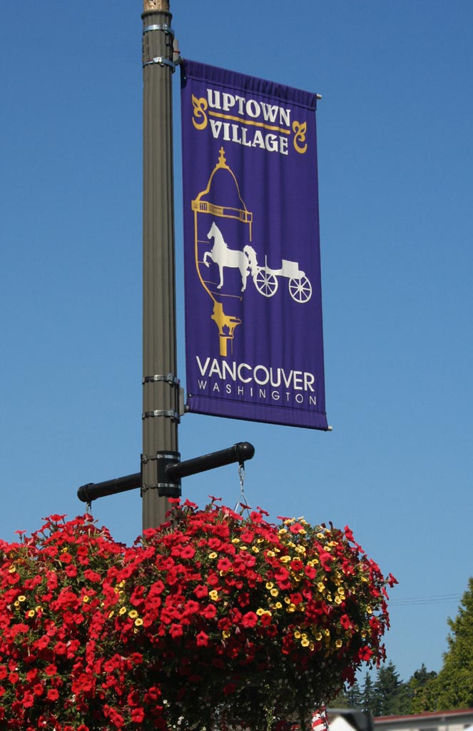 The banner of the Uptown Village neighborhood